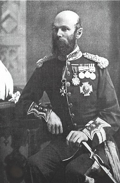 Sir Henry Dermot Daly. Died 21 July 1895. Founder of Daly College